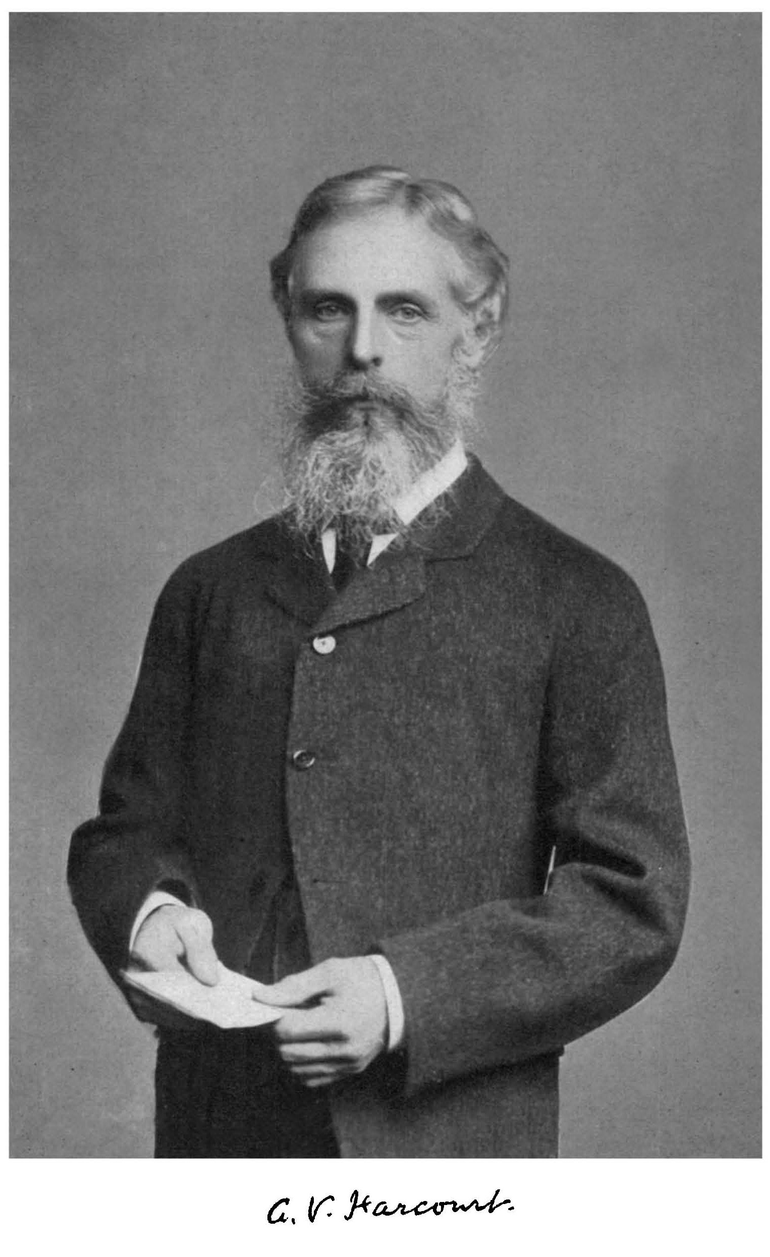 Picture of A. G. Vernon Harcourt